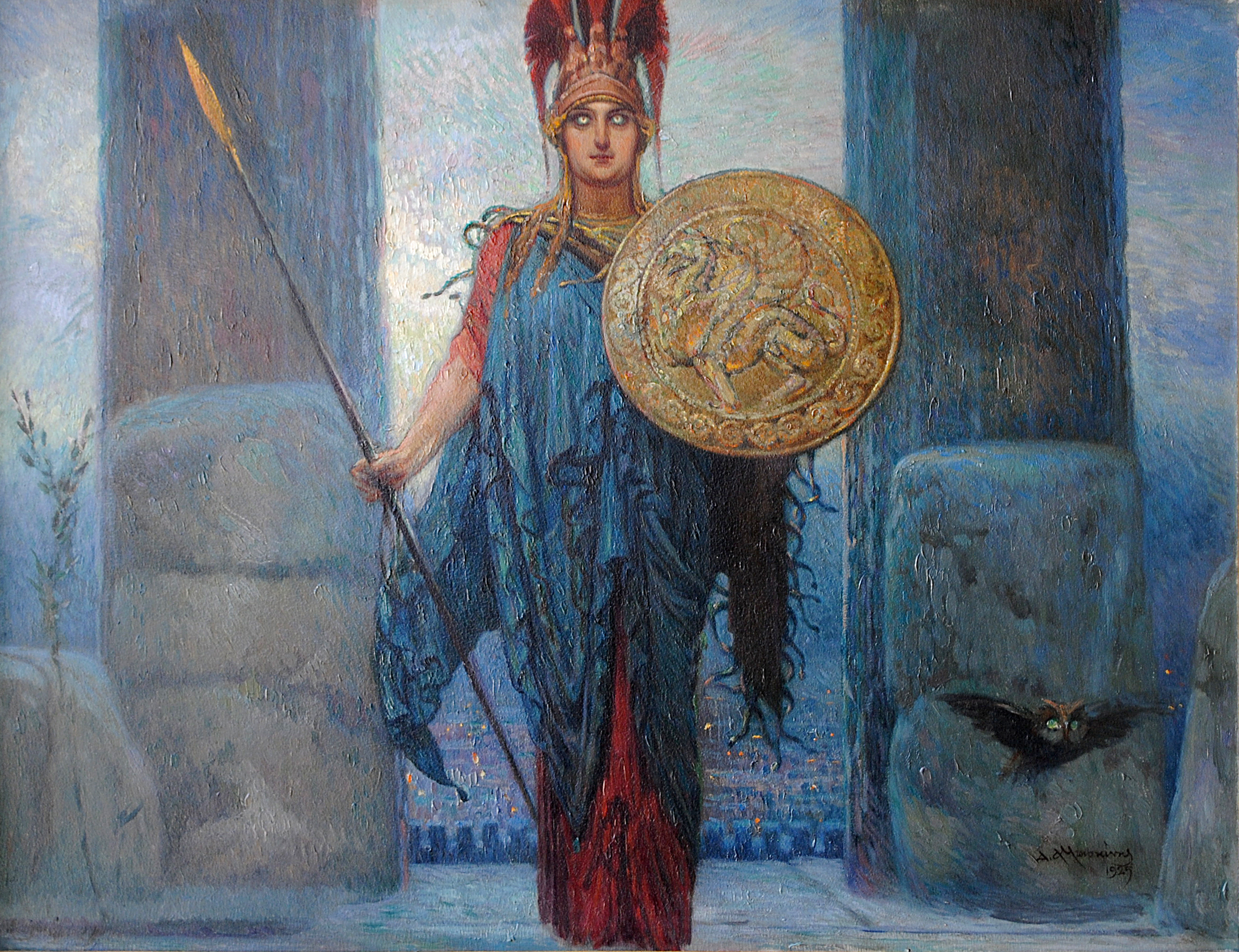 Biskinis Dimitrios, Oil on canvas, 48 x 61 cm, Private Collection